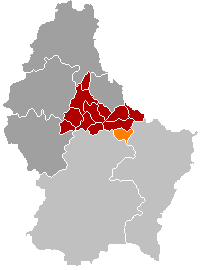 Medernach municipality location (valid until 1 January 2012). Own edit of Kanton DiekirchLocatie.png